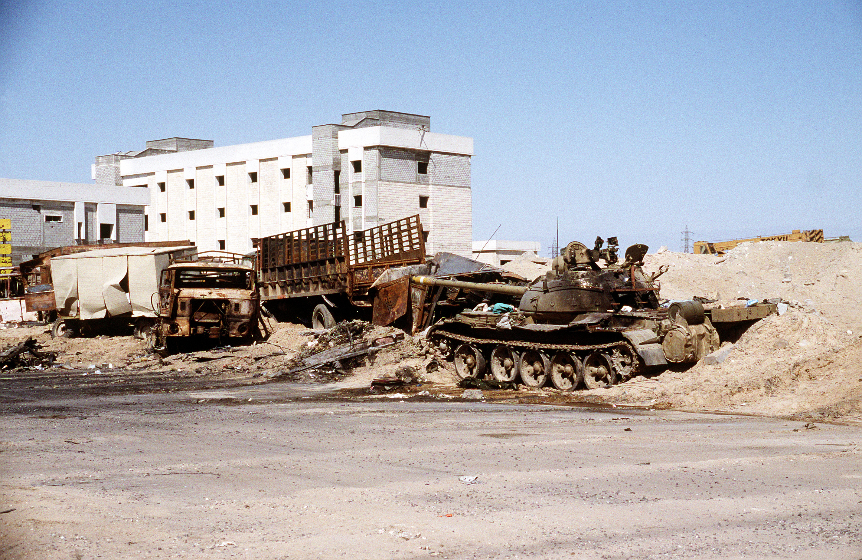 An Iraqi T-54A, T-55 main battle tank stands on a bank with other demolished equipment (including an IFA W50 truck) at Al Mutla Pass, north of Kuwait City. The equipment was destroyed by the U.S. Air Force and the Army Tiger Brigade forces which captured Iraqi forces fleeing from the region during Operation Desert Storm.